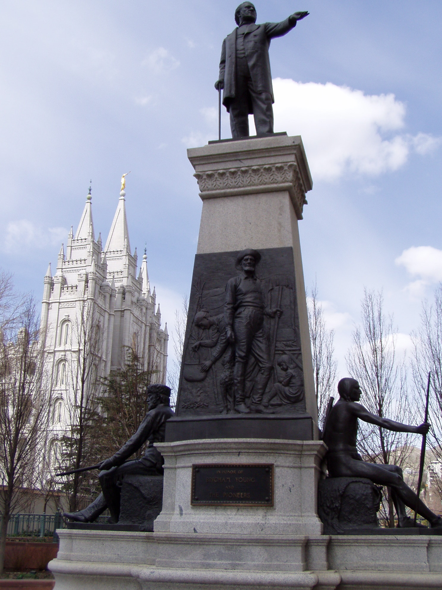 The Brigham Young Monument (or Pioneer Monument, a bronzed historical monument located on the north sidewalk of the intersection at Main and South Temple Streets of Salt Lake City, Utah. It was originally erected in the center of the intersection of Main and South Temple streets in 1897, where it stood until 1993, when it was moved a few yards north to its present location near the Joseph Smith Memorial Building.